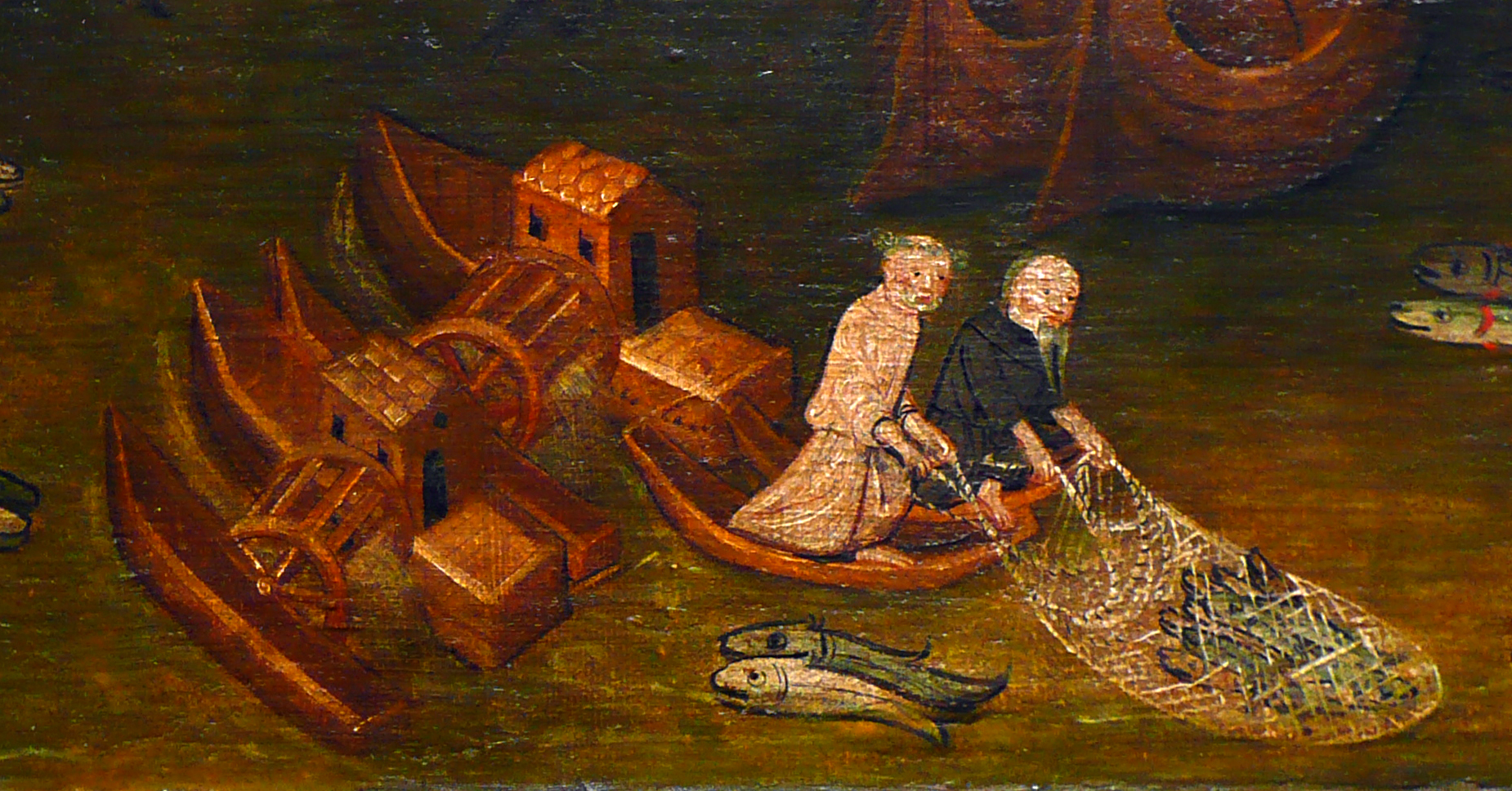 Medieval shipmills on the Rhine at Cologne. Detail of the Martyrdom of St Ursula at Cologne, around 1411. Current location: Wallraf-Richartz-Museum, Cologne, Germany